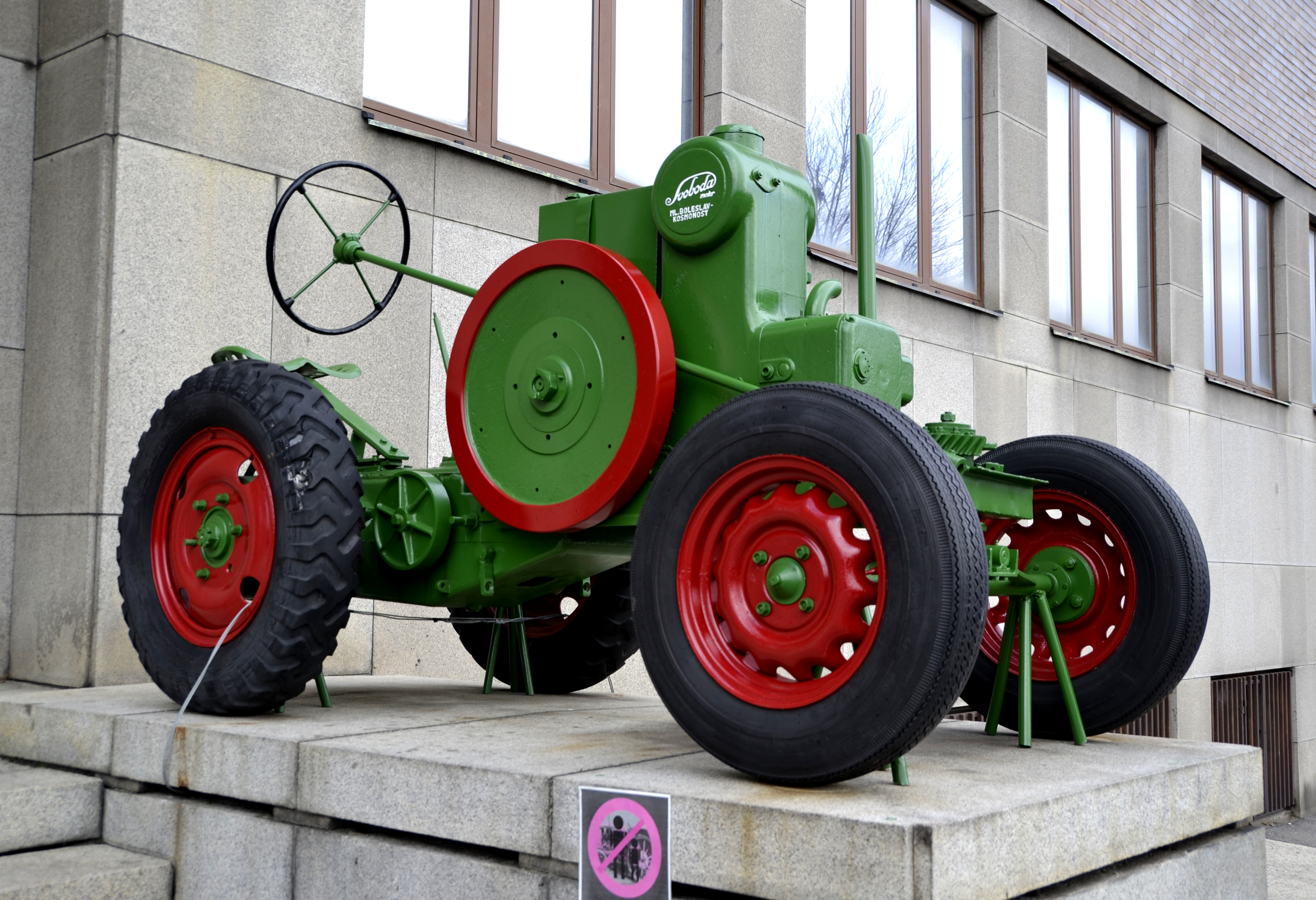 A Svoboda tractor in front of the National Museum of Agriculture of the Czech Republic in Prague.